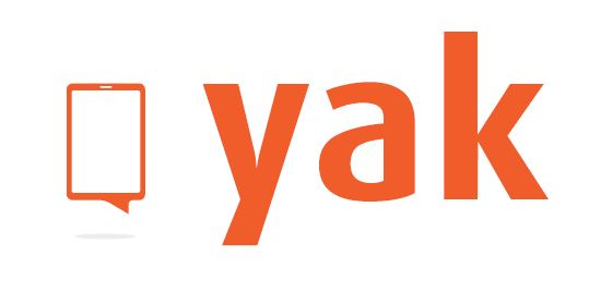 Yak Communications